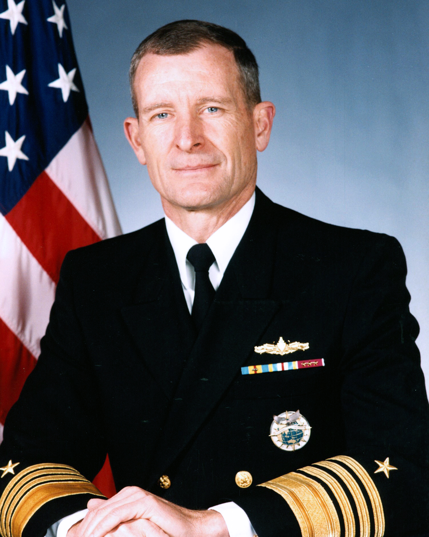 Admiral Dennis C. Blair